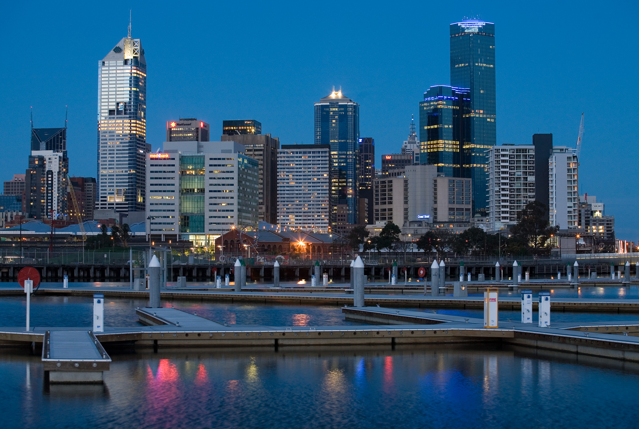 The Melbourne skyline as viewed from Yarra's Edge, Docklands, Melbourne after sunset. Taken with a Canon 5D and 24-105mm f/4 IS lens on the 23rd of October, 2005 by myself.